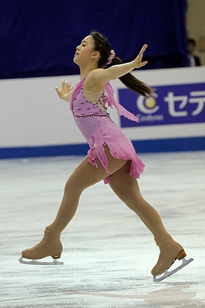 Photos – Junior World Championships 2017